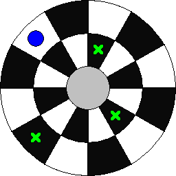 Example of the movement of a 3-mobility piece in the game Dejarik.